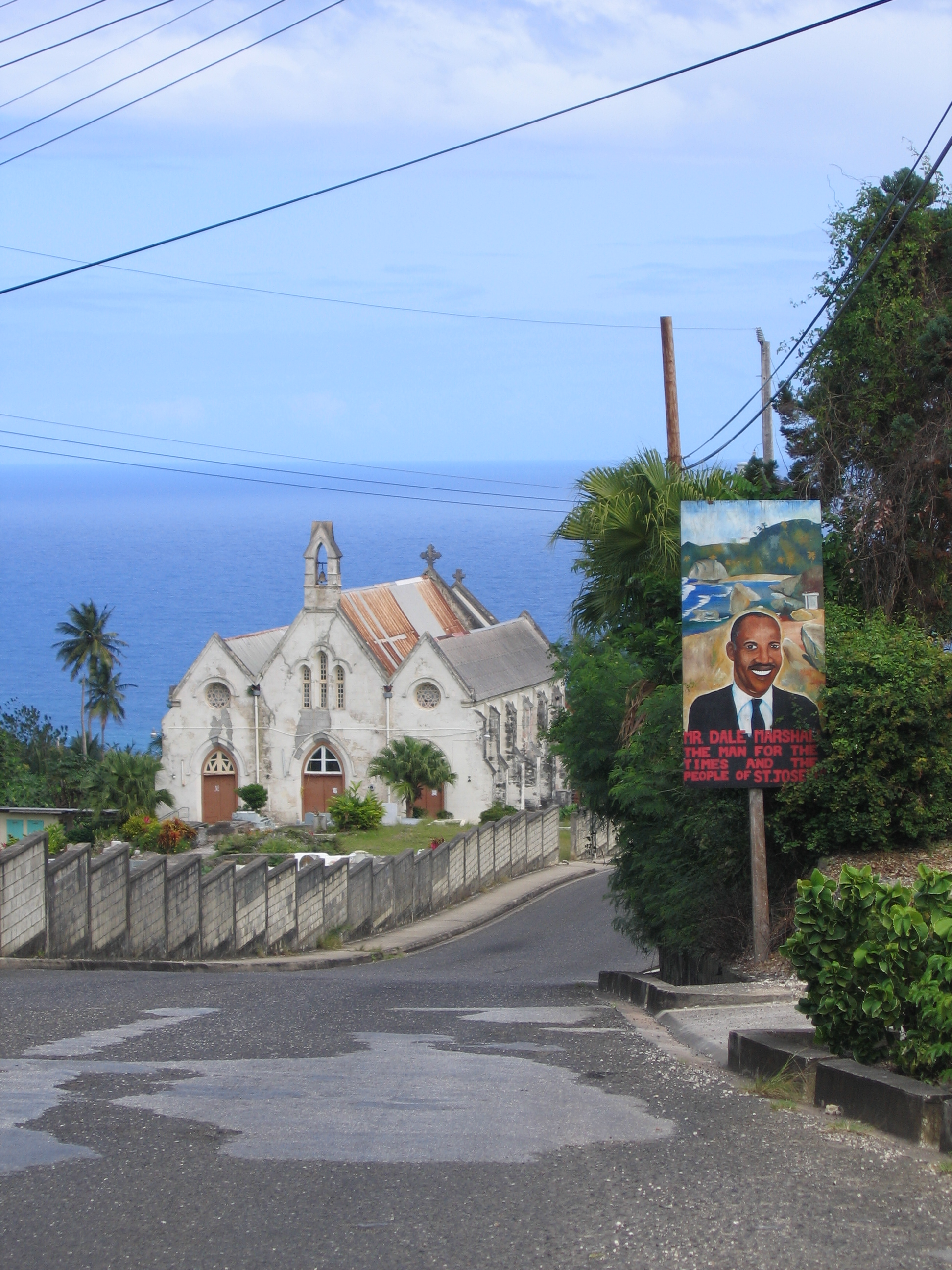 Saint Joseph Parish Church, Saint Joseph, Barbados. Hand-painted sign reads "Mr. Dale Marshall the Man for the Times and the People of St. Joseph."